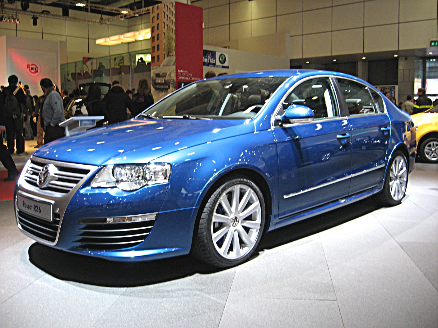 Subject:Volkswagen Passat R36 Author:Luc106 Date:December 13th, 2007 Event:Motor Show Bologna 2007 Place/Country: Bologna, Italy I release all rights in the public domain.